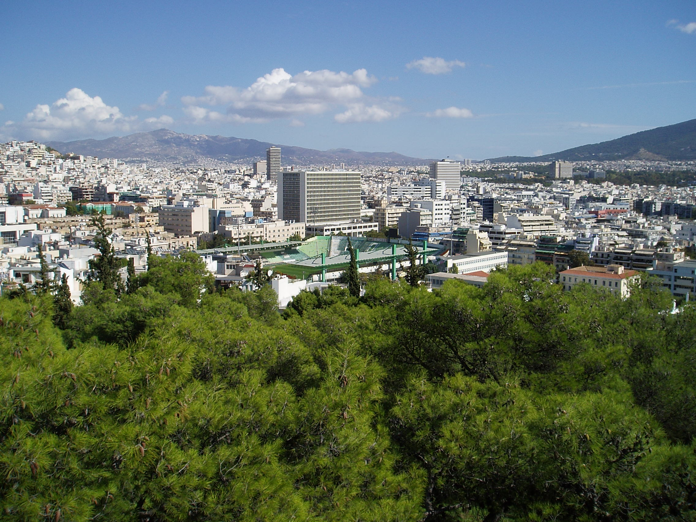 Apostolos Nikolaidis Stadion from Mount Lycabettus